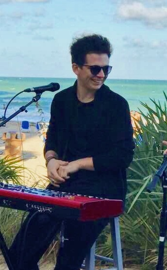 Brother Sundance performing at a radio event for Riptide Music Festival